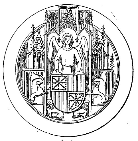 John II of Aragon